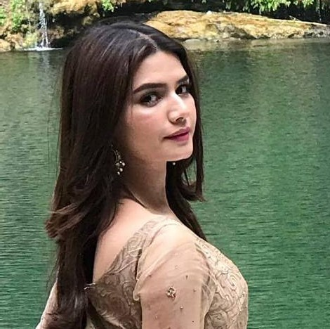 Kiran Haq in 2018